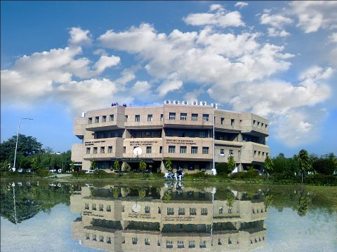 National Institute of technology Jalandhar Punjab. located on Amritsar GT road Bye pass. the top engineering college of punjab.